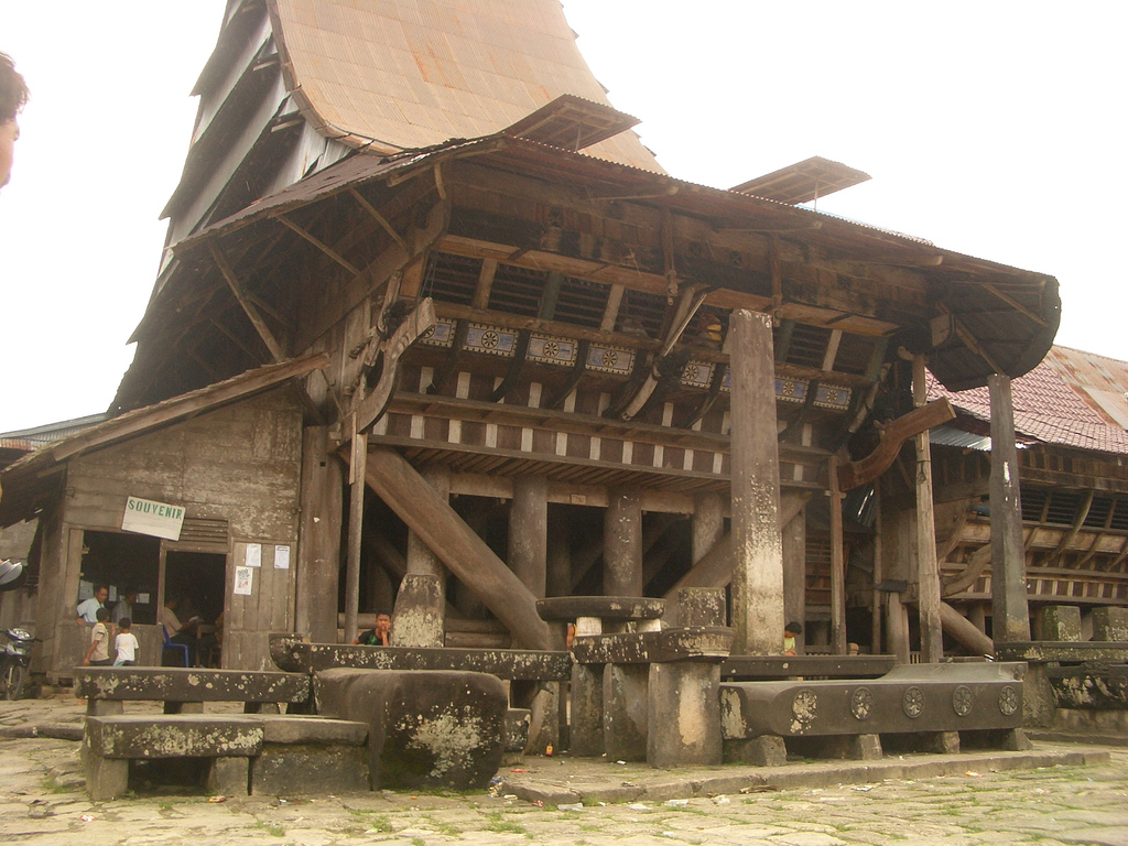 Omo Sebua means the big house. This is a traditional house from South Nias. It was king of Tano Niha who live there.